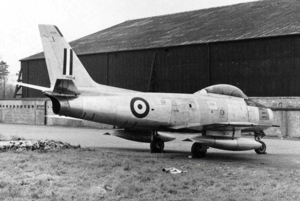 Canadair Sabre 2 ex RCAF in Greek A.F. markings at Manchester (Ringway) Airport